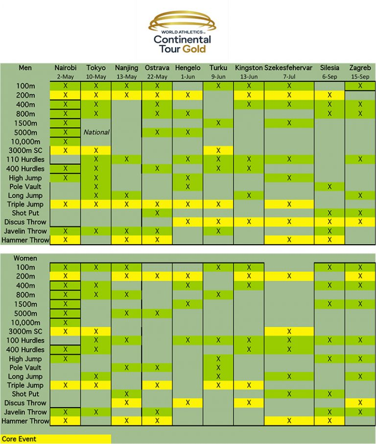 2020 World Athletics Continental Tour meetings event disciplines